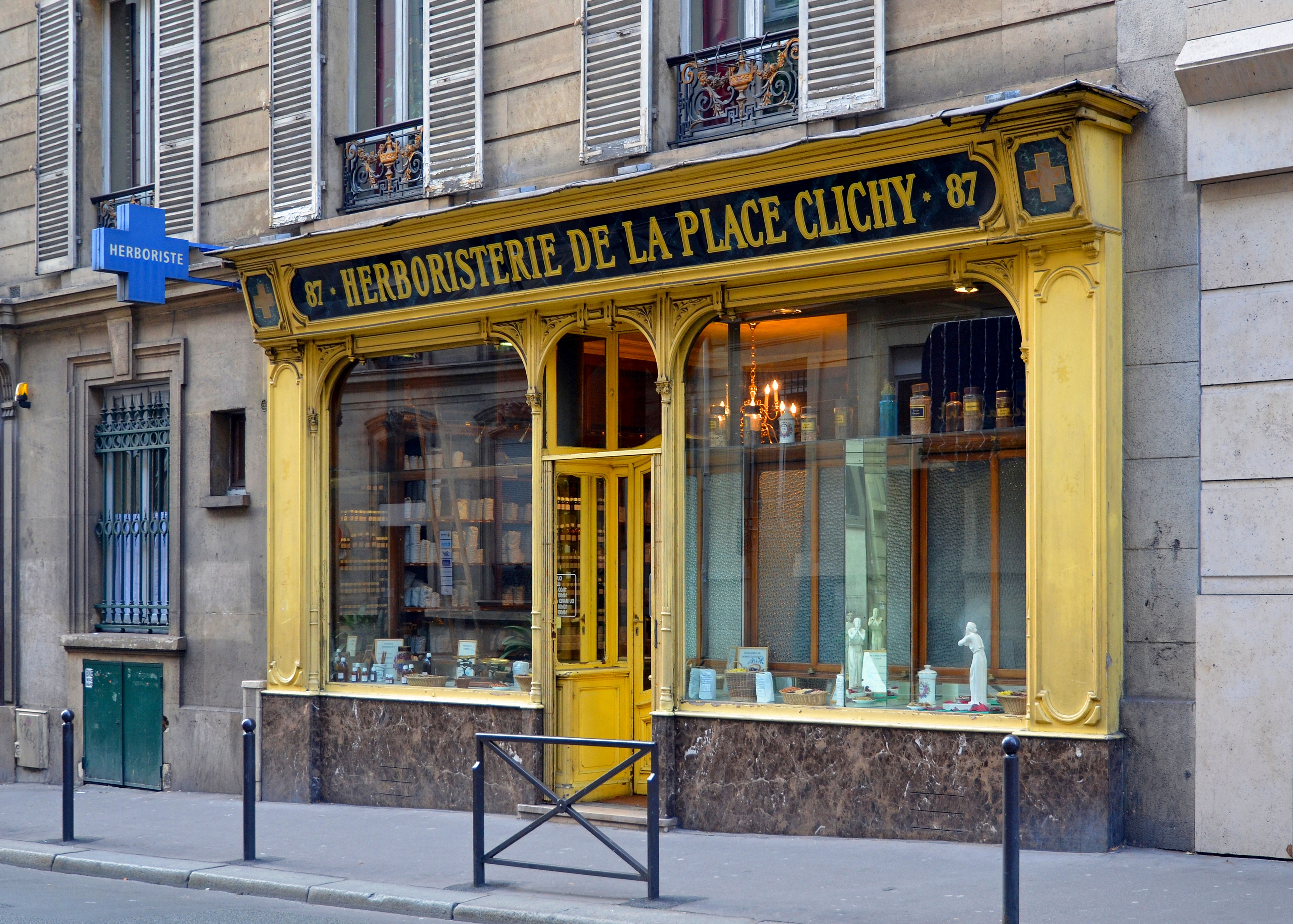 Herbal shop - 87 Amsterdam street - Paris, 8th arrondissement